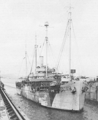 USS Anacapa, USN Q Ship, WW 2. Hinged flaps aft of the anchor hide 3" guns.